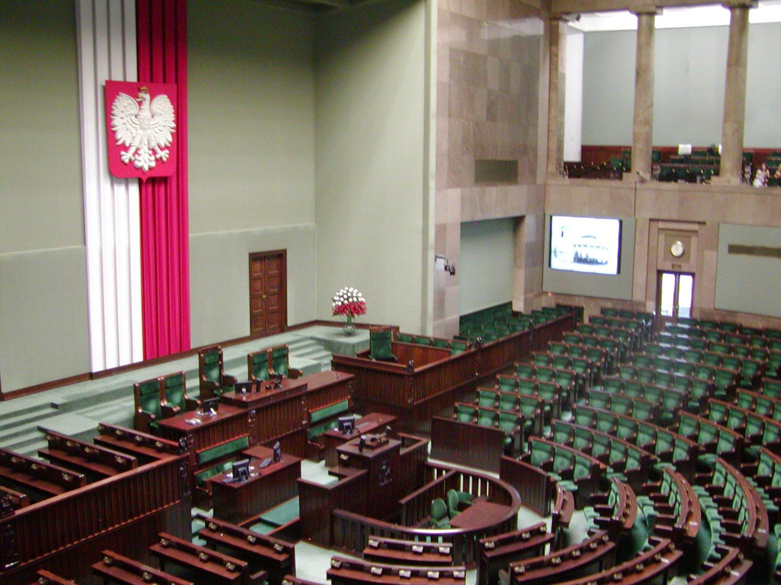 Polish Sejm Hall